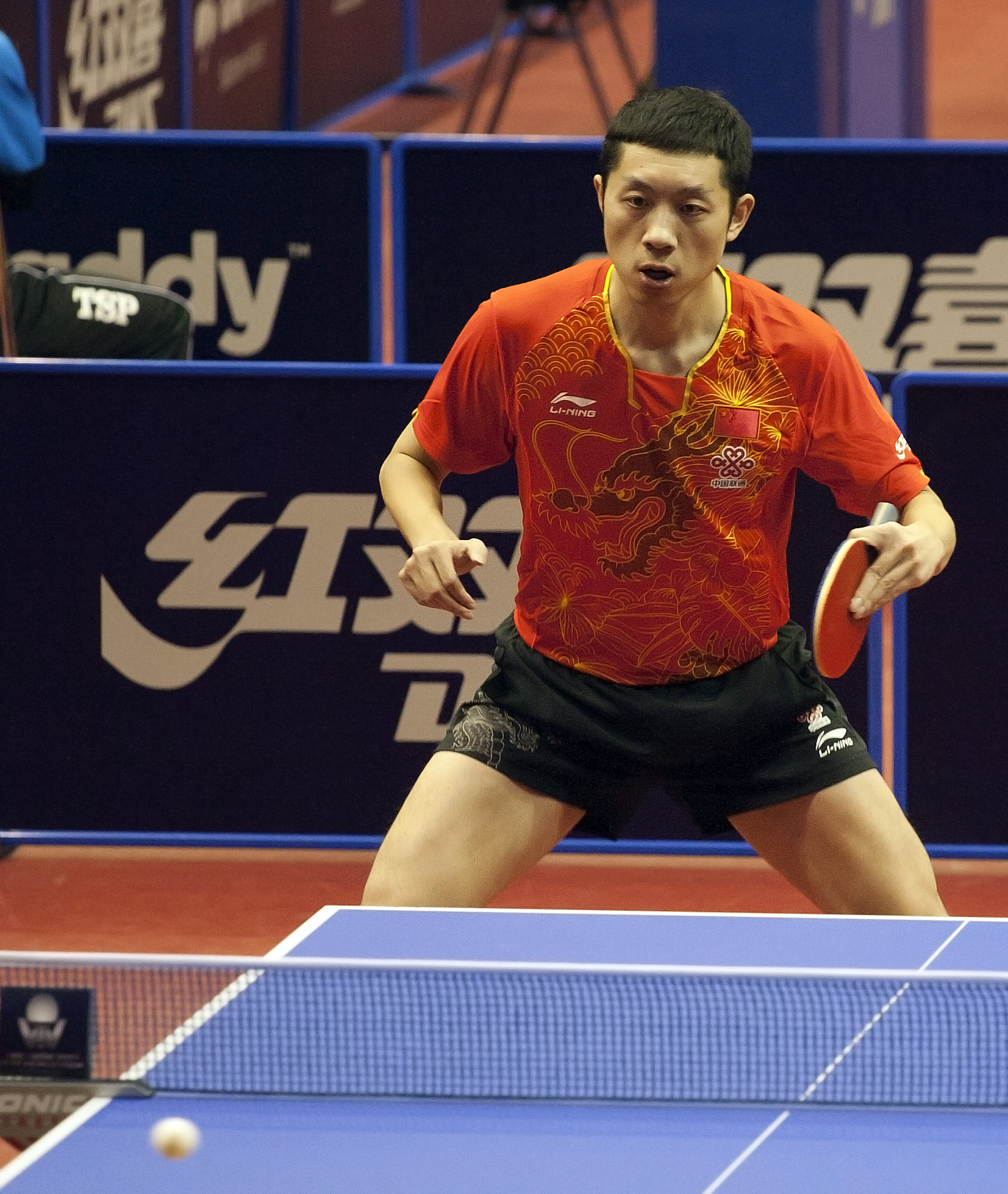 ITTF World Tour 2017 German Open, Magdeburg, Germany, 7 Nov 2017 - 12 Nov 2017, Xu Xin